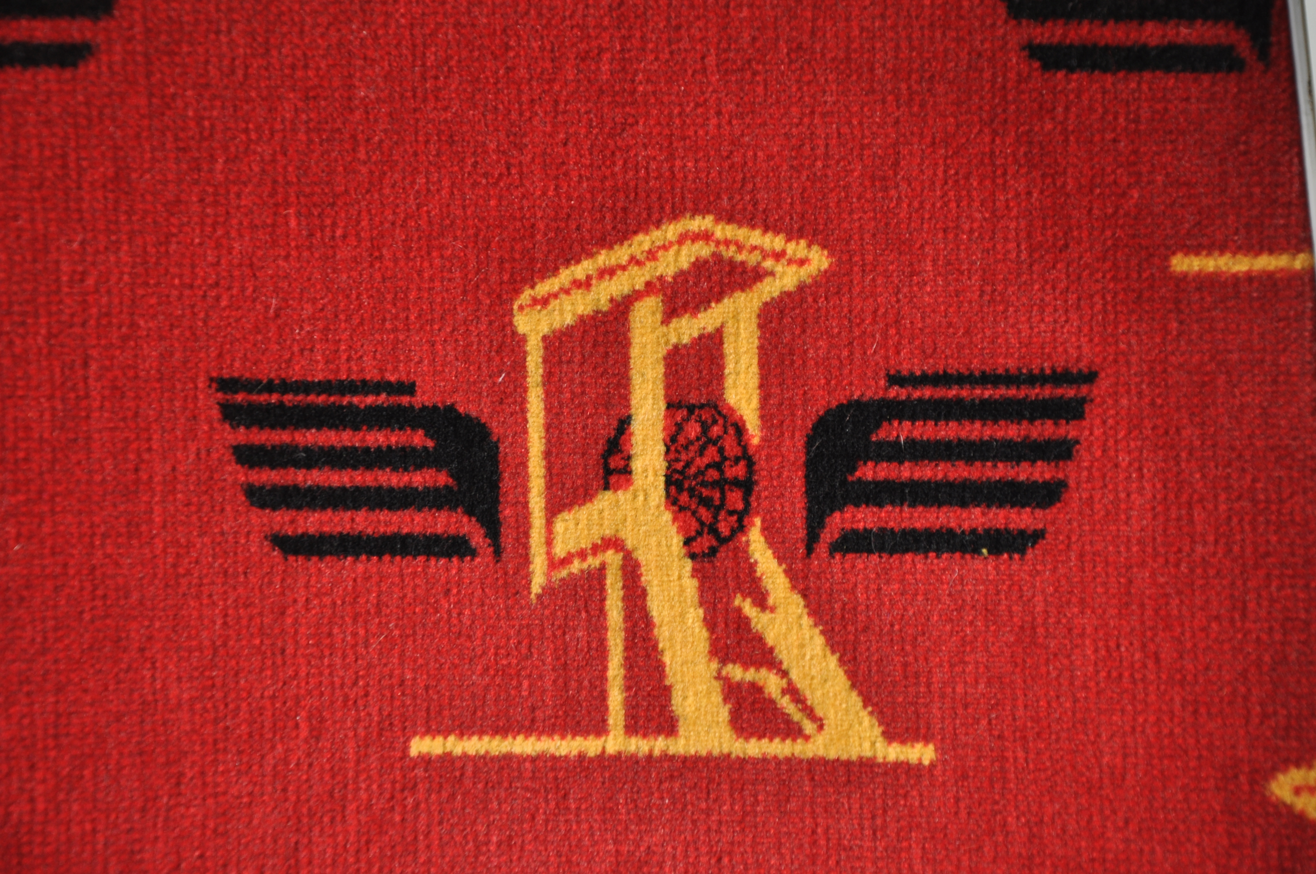 Trams of Tramwaje Slaskie